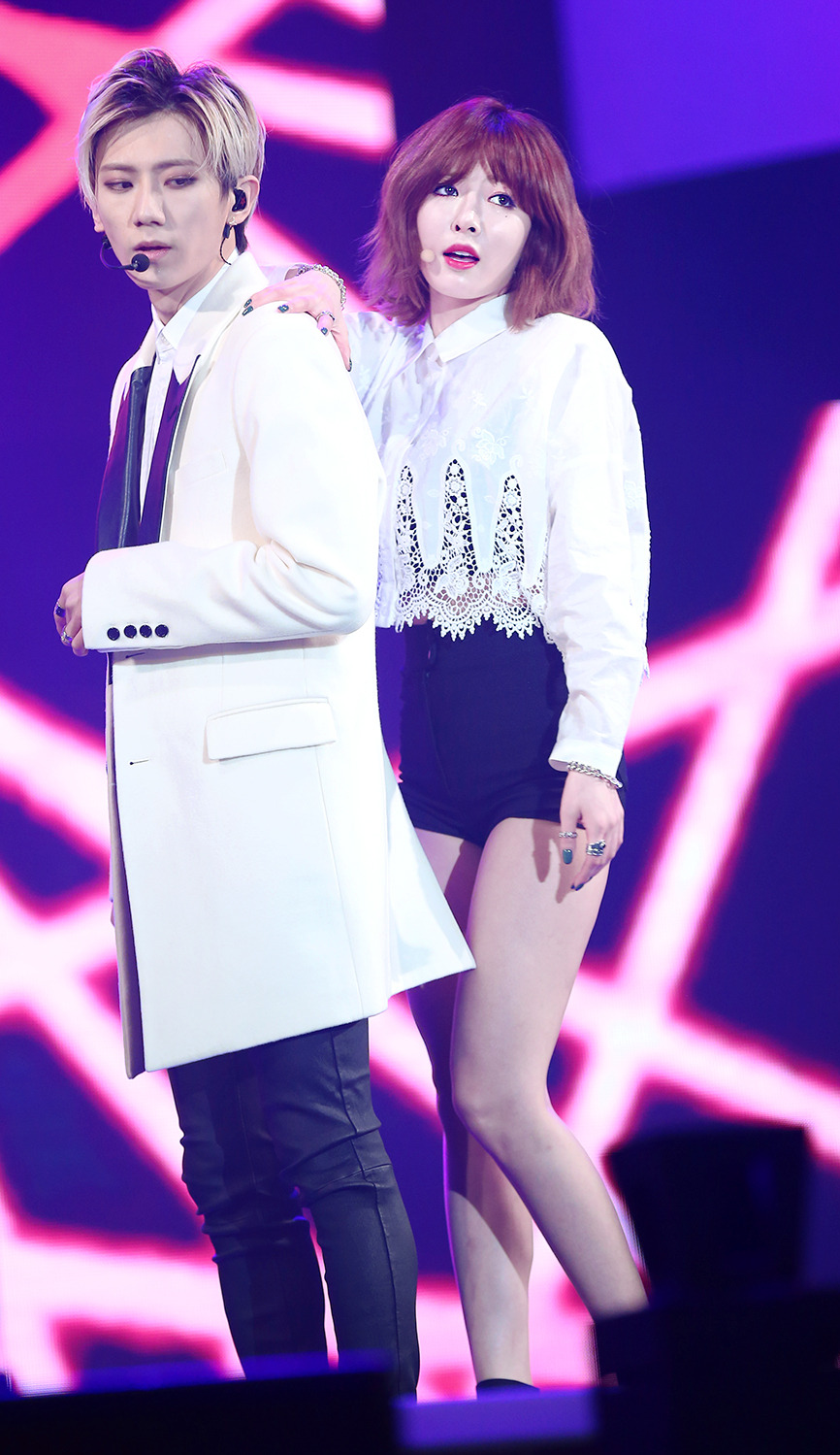 Trouble Maker performing at V-Pop Festival Concert on January 18, 2014.